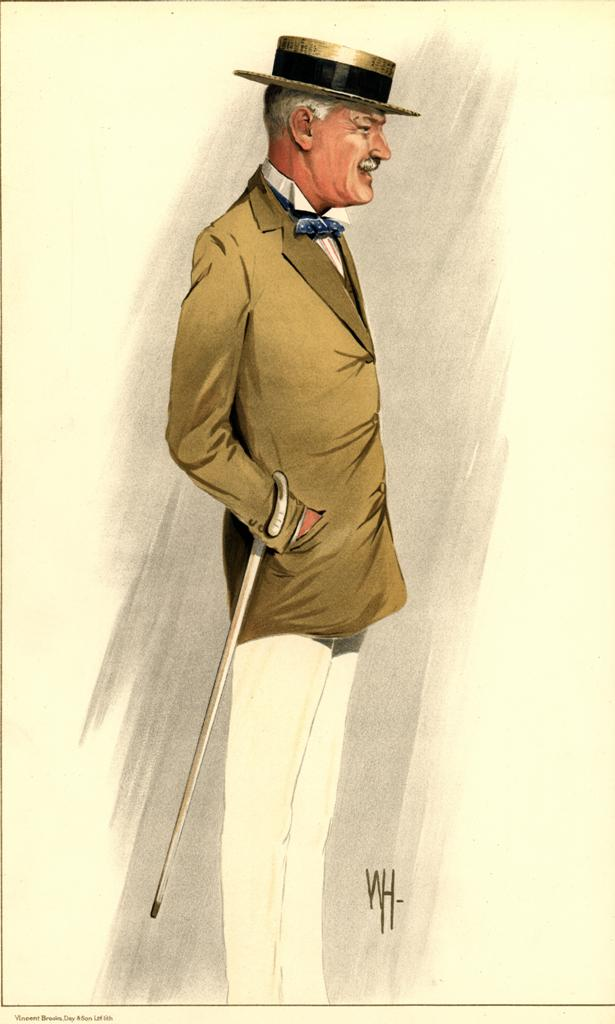 Caricature of Herbert Francis Eaton (Major General Lord Cheylesmore) - “Arms and Sport” .